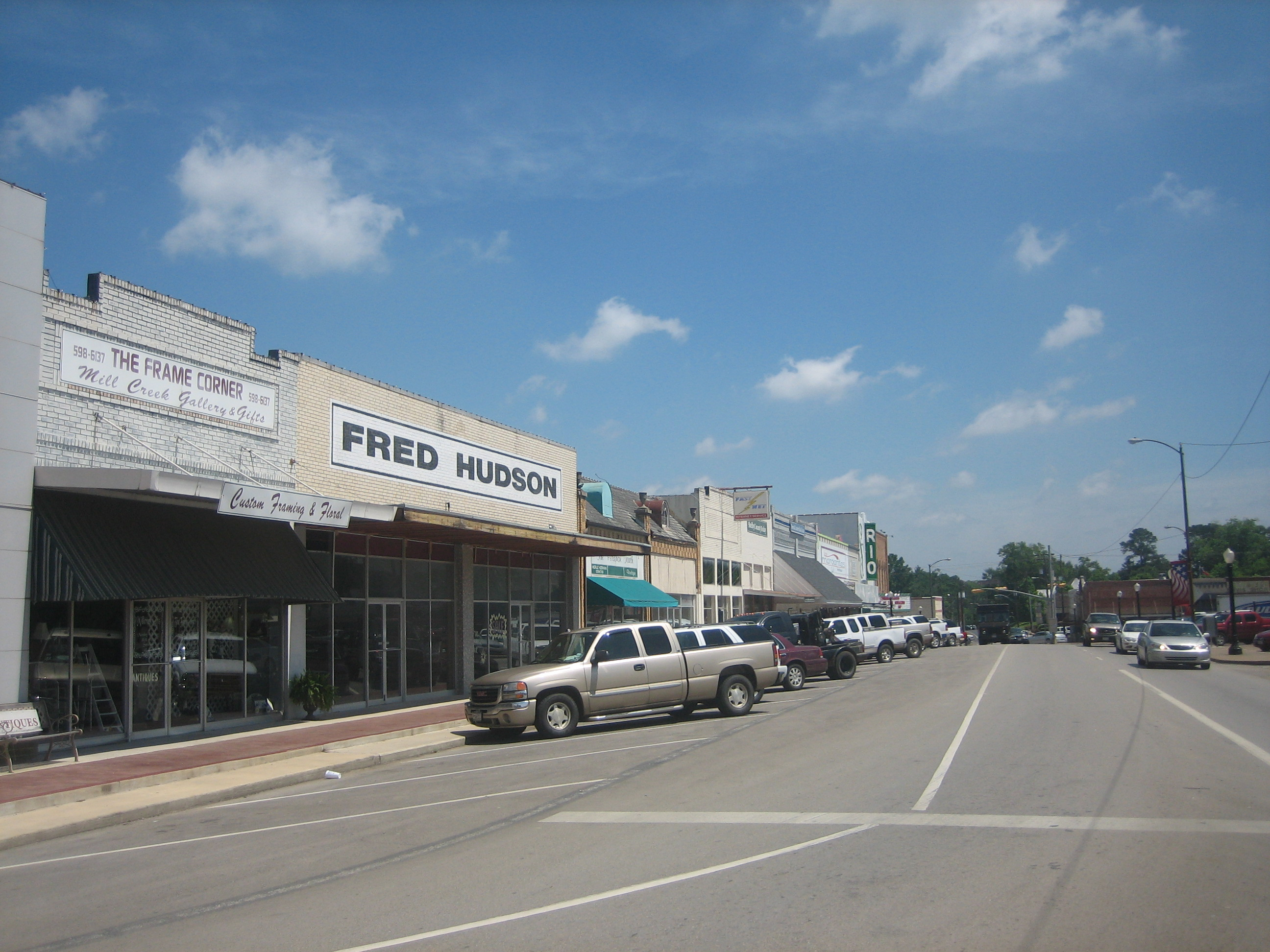 looking north at the 100 block of Nacogdoches Street on the courthouse square (Texas State Highway 7), Center, Texas